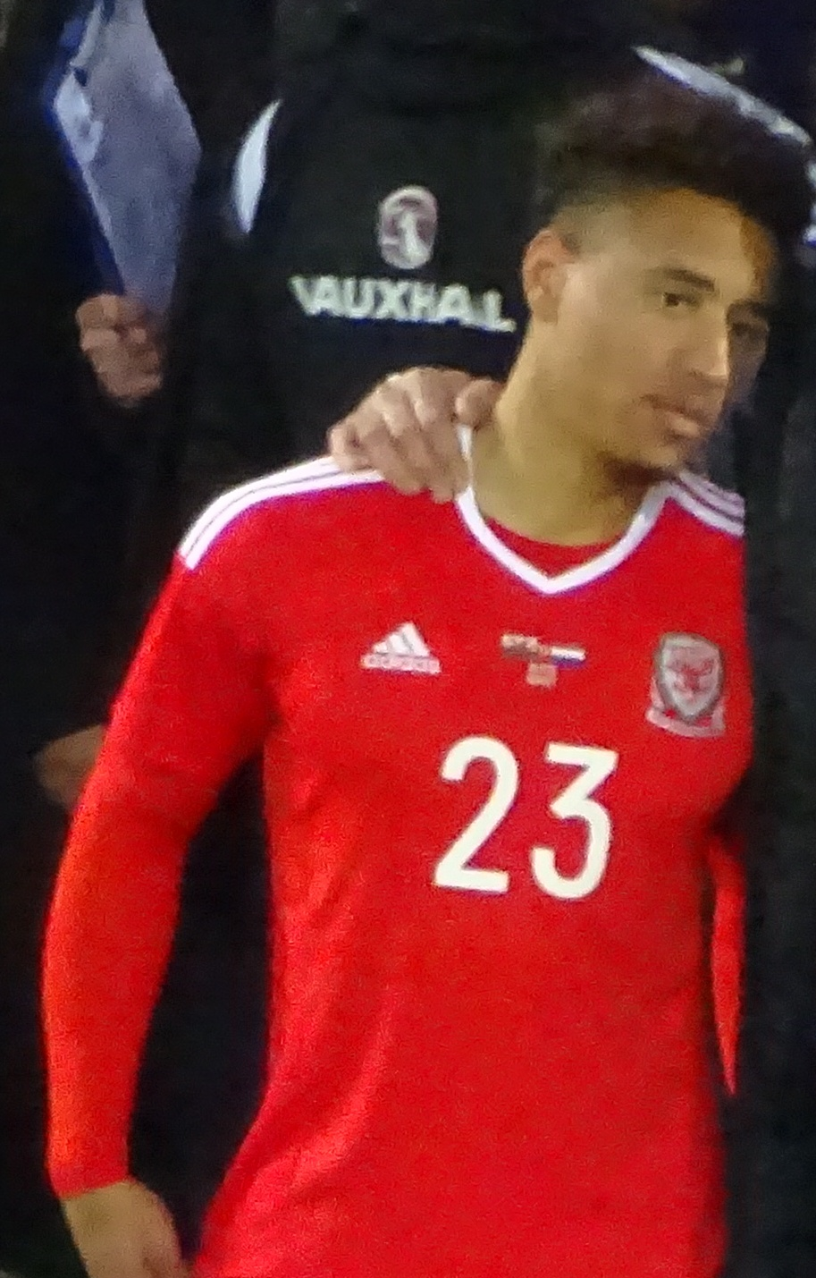 Footballer Adam Henley talks to manager Chris Coleman prior to making his debut for Wales.